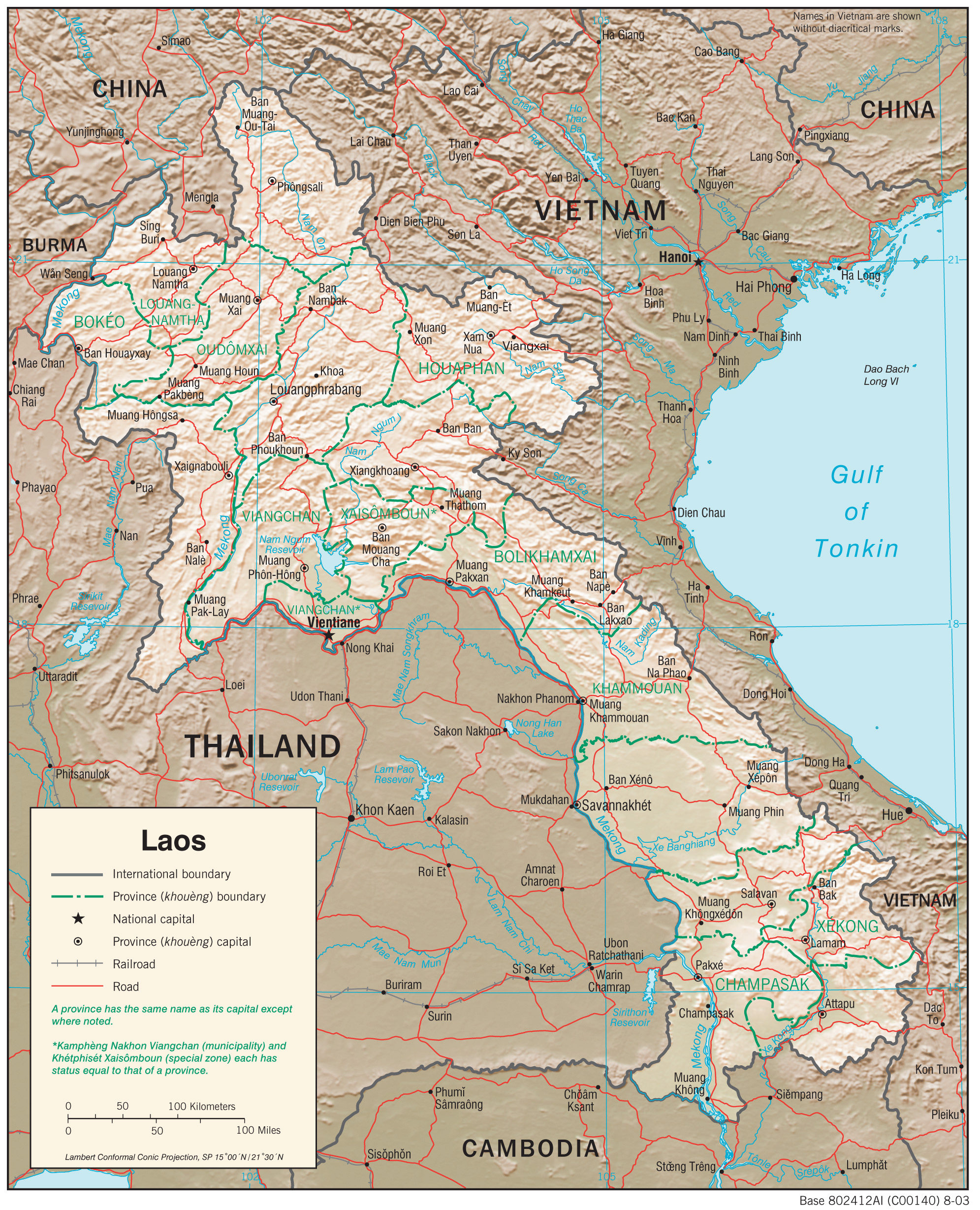 Topographic map of Laos (shaded relief), 2003.